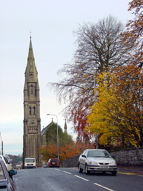 Church of St Patrick, Dungannon. The Church of St Patrick is next to the Royal School in Dungannon. The church was established in 1876.